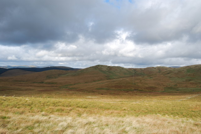 Crown of Scotland from Chalk Rig Edge Anemometer mast for the proposed Earlshaugh windfarm to right of centre.